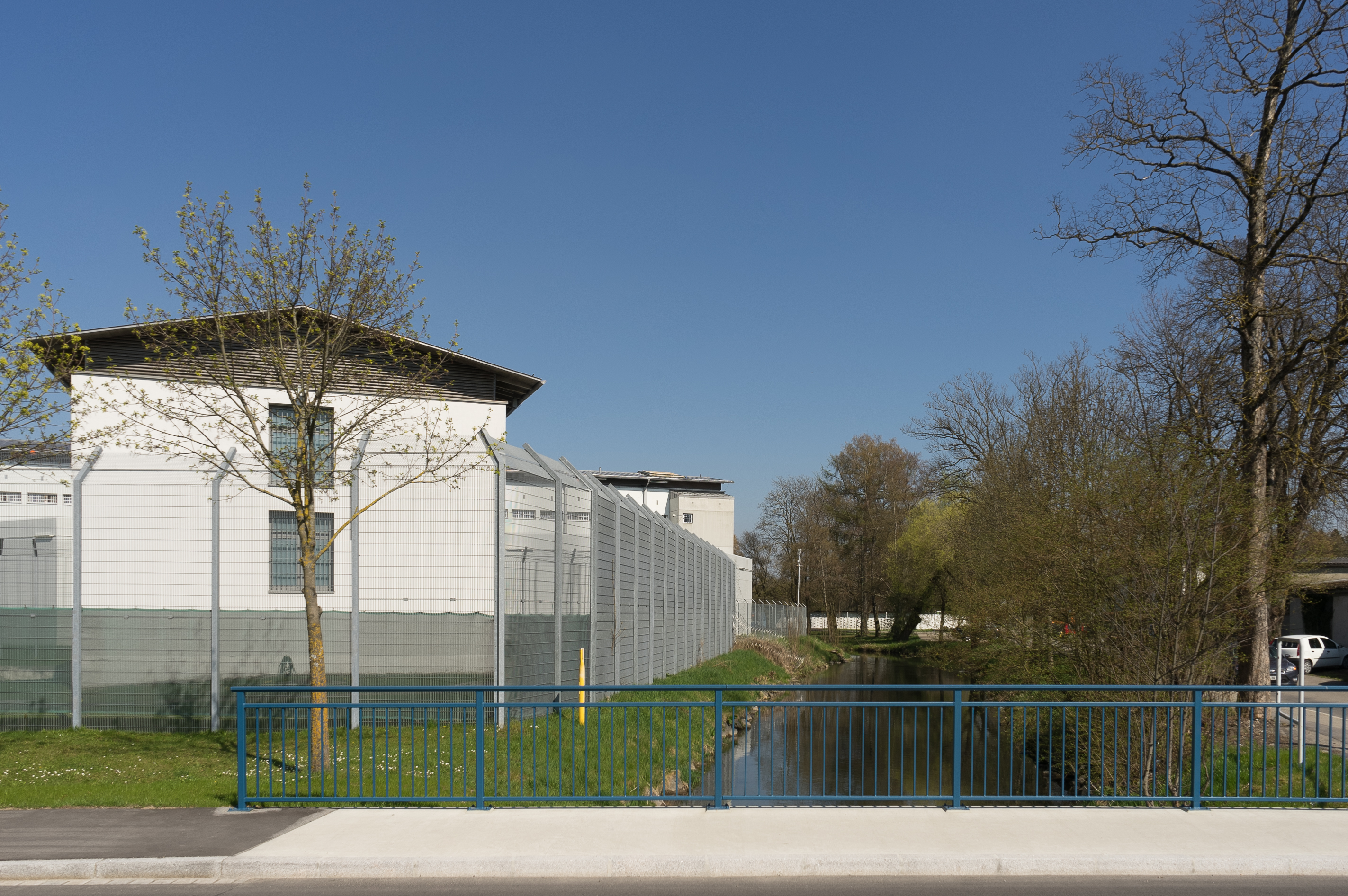 Prison in Memmingen. The River serves no purpose.